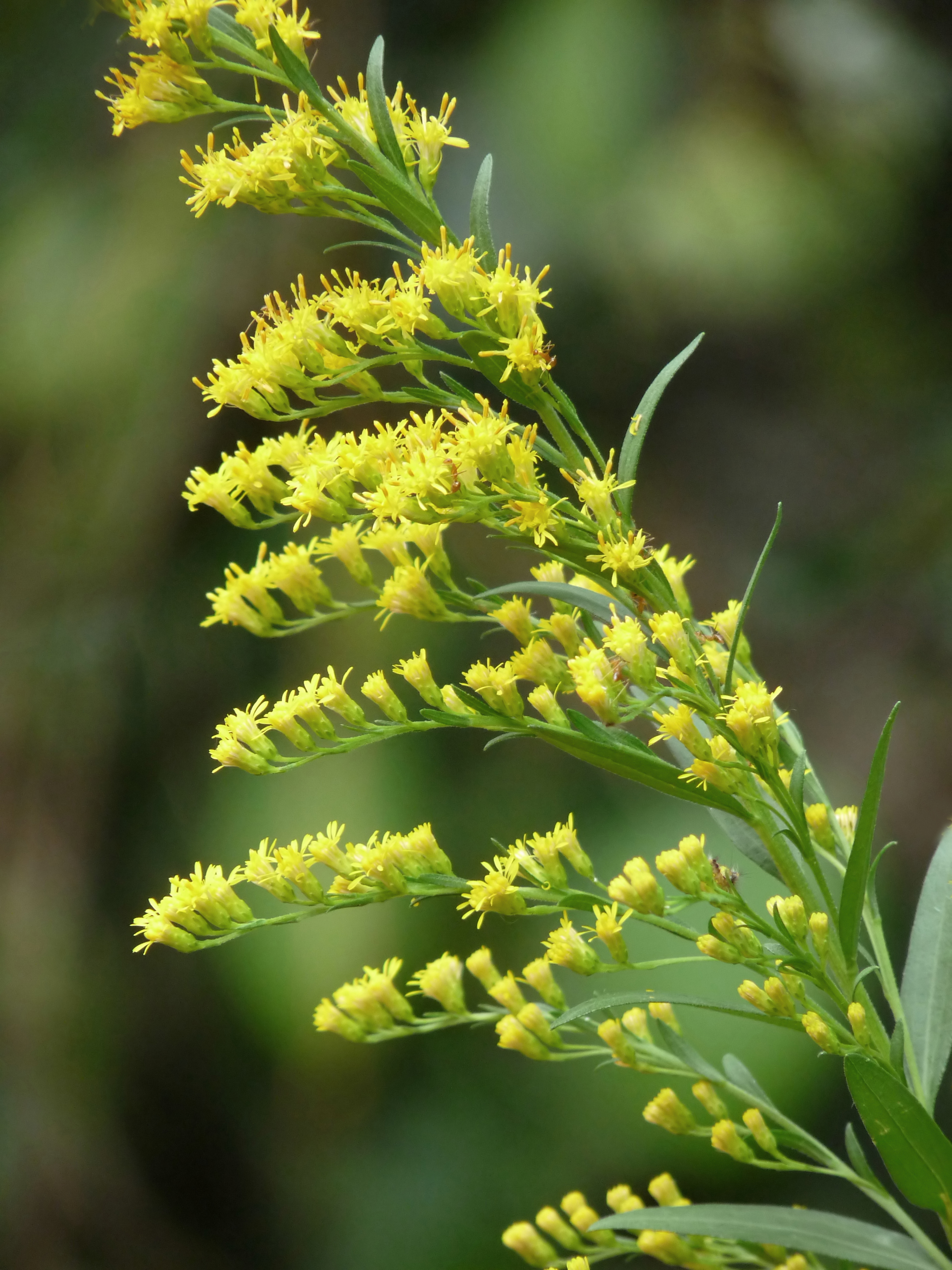 Solidago canadensis, Common goldenrod, Canada goldenrod, is an herbaceous perennial plant of the family Asteraceae native to North America. It is often grown as a wildflower. The plant is erect, often forming colonies. Flowers are small yellow heads held above the foliage on a branching inflorescence. It occurs in many habitats, including waste areas, meadows, and on the margins of forests. Goldenrod is cultivated in cooler regions, and used in floral arrangements. The color burst of golden yellow in late summer is dramatic. Goldenrods are easily recognized by their golden inflorescence with hundreds of small capitula, but some are spike-like and other have auxiliary racemes. They have slender stems, usually hairless but S. canadensis shows hairs on the upper stem. They can grow to a length between 60 cm and 1.5 m. Their alternate leaves are linear to lanceolate. Their margins are usually finely to sharply serrated.